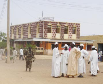 Original caption states, "Armed Janjaweed walk freely through the marketplace in Geneina"